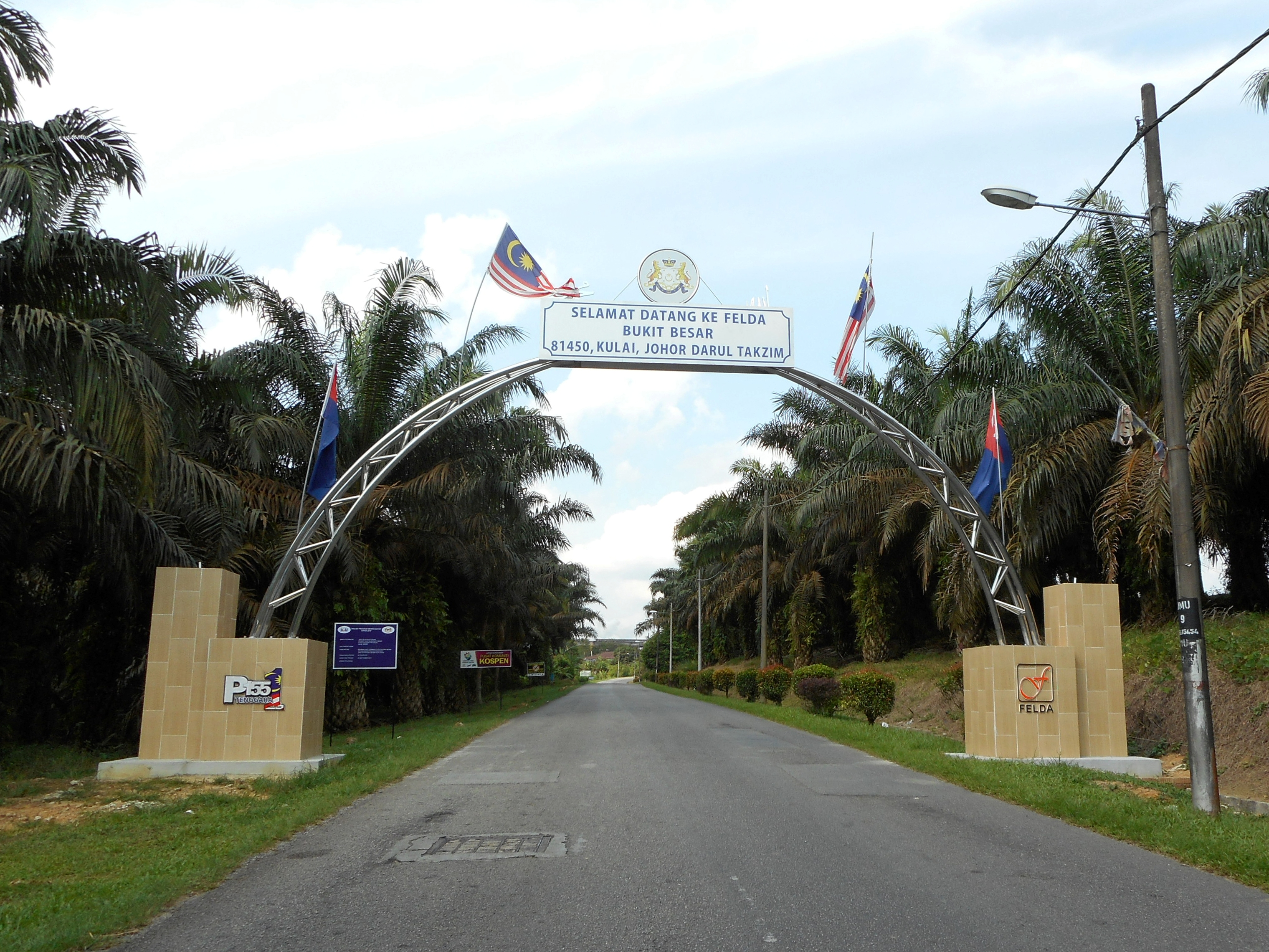 FELDA Bukit Besar, Kota Tinggi, Johor, Malaysia